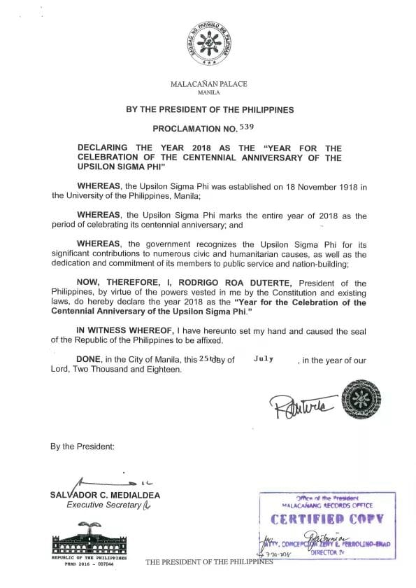 Duterte signs proclamation recognizing Upsilon